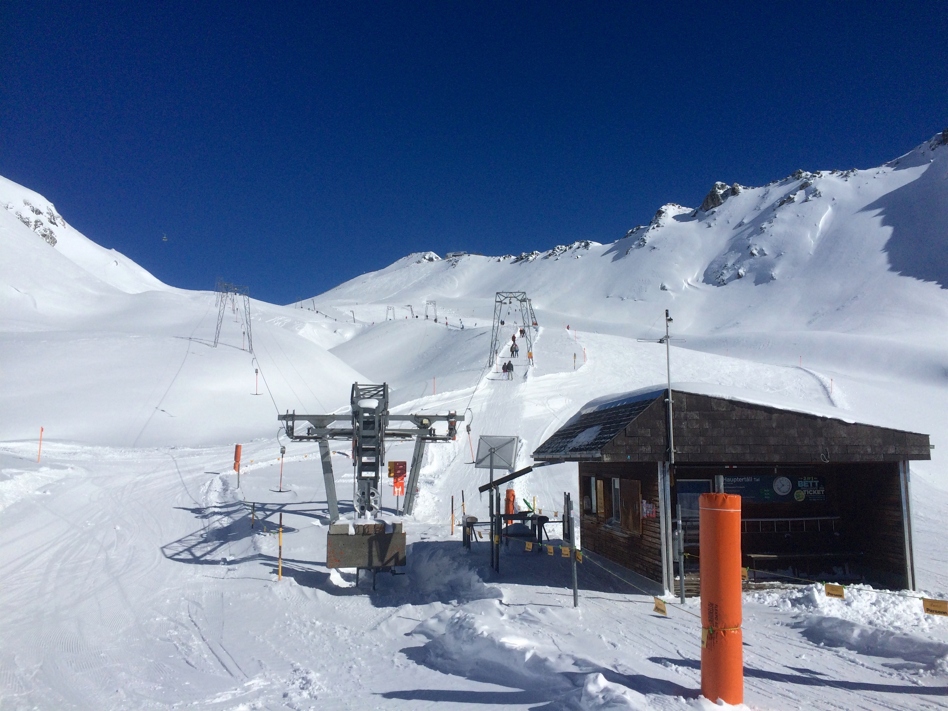 Skilift "Hauptertälli" in the ski resort Davos/Parsenn, Langwies/Switzerland